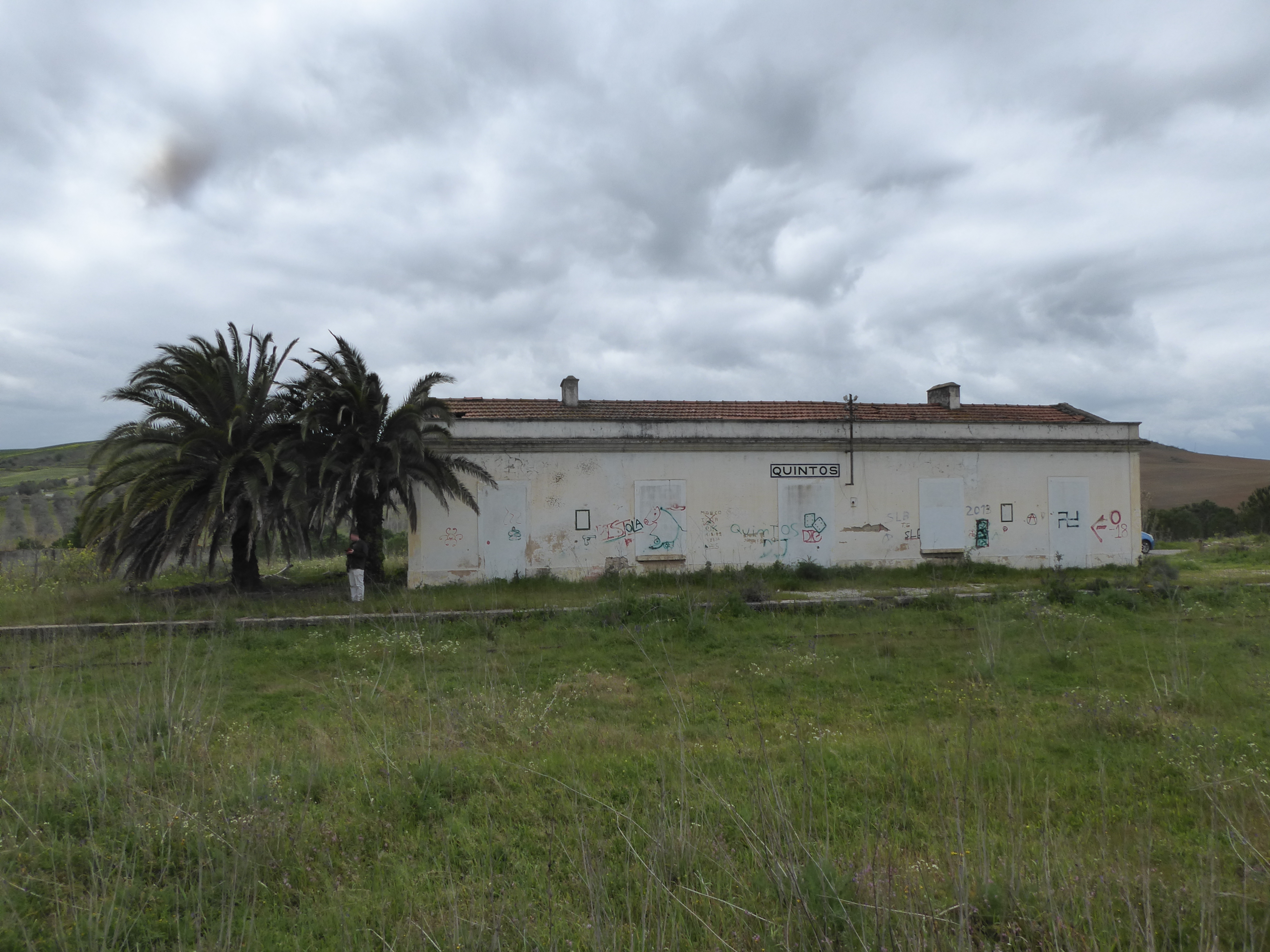 Quintos halt, Portugal